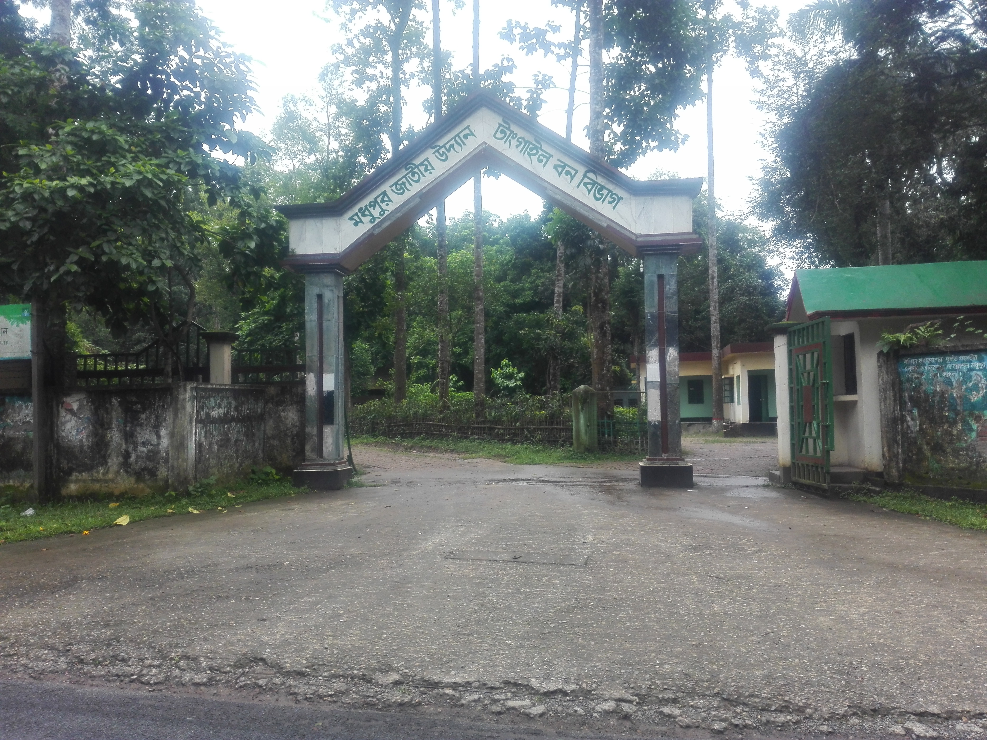 Main gate of modhupur forest at Rasulpur